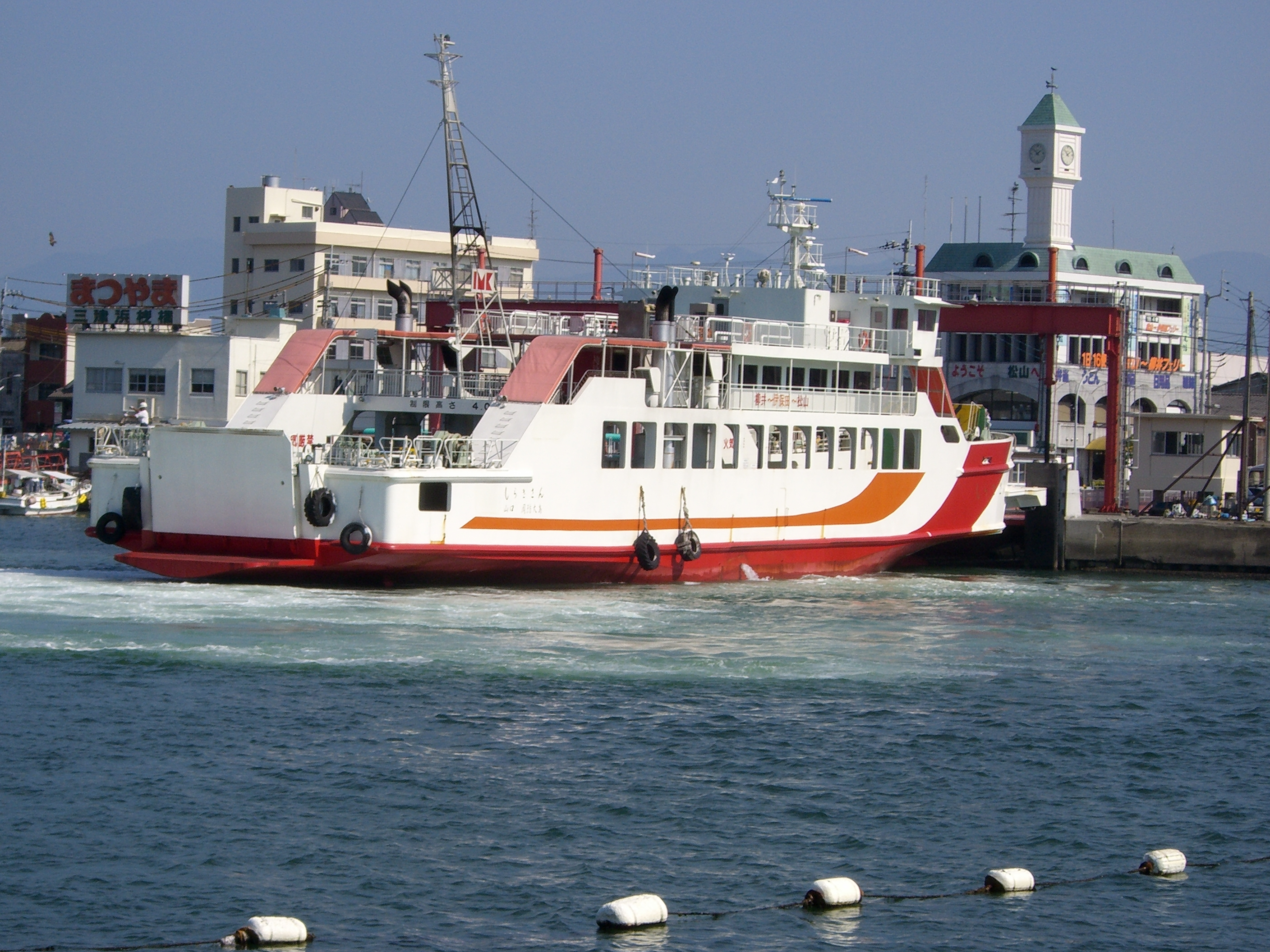 “Mitsu-hama Port” is one of the old entrances to Matsuyama(Ehime JAPAN). The port's traffic mainly consists of fishing boats and the ferries to Yanai (in Yamaguchi Prefecture).